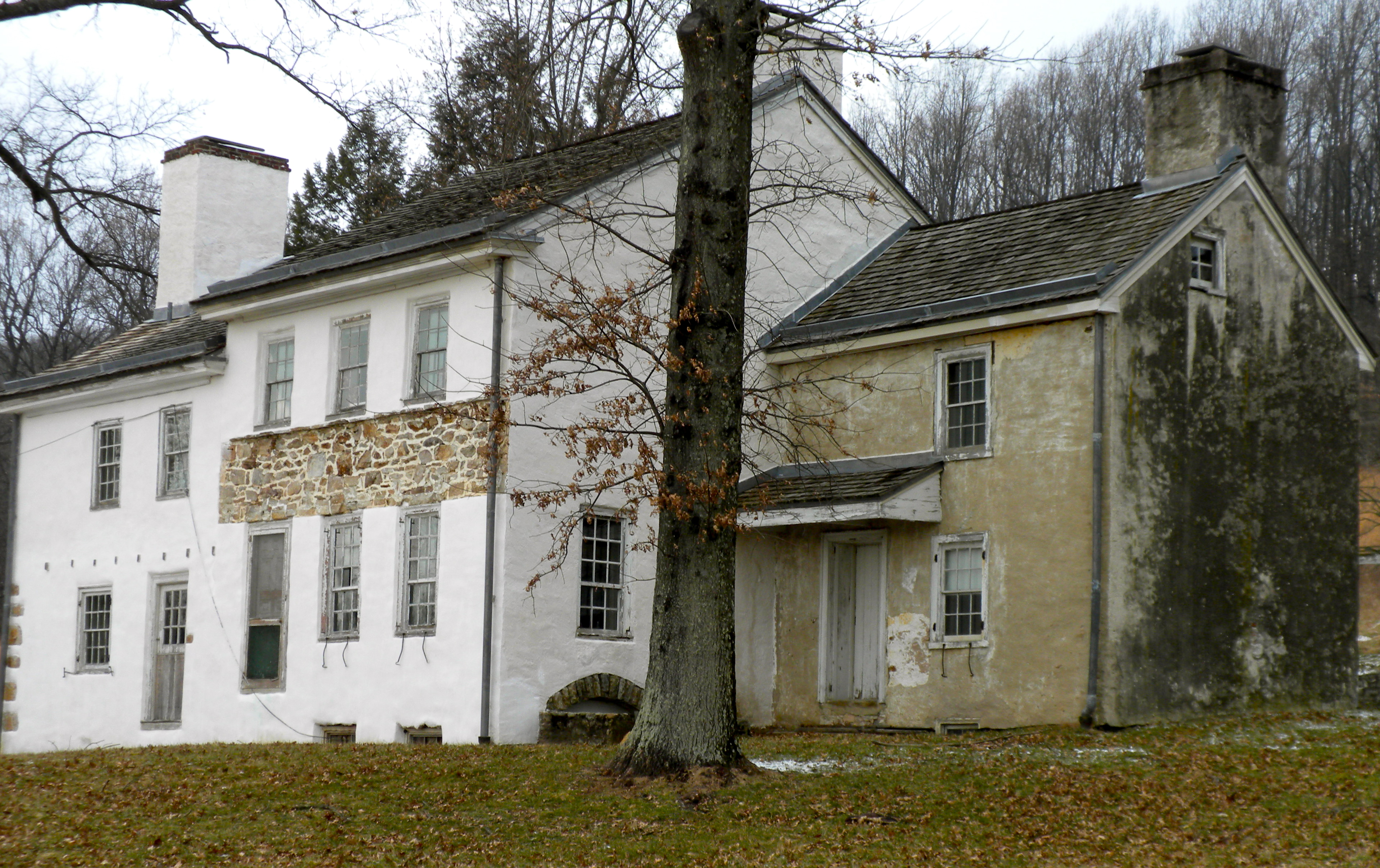 General Lord Sterling's Quarters at Valley Forge. American General with faux Scottish title. On Yellow Springs Road, near the southwest edge of the National Historic Park. On NRHP.